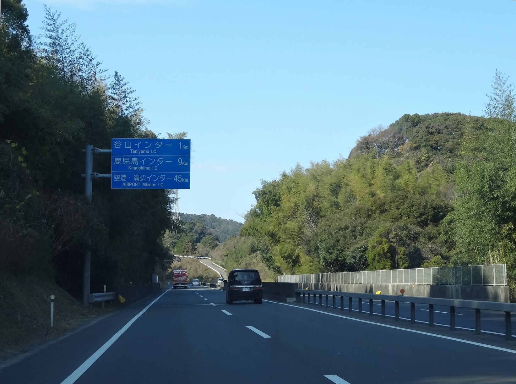 Kagoshima Prefectural Road Route 219 in Taniyama, Kagoshima City, view towards Taniyama Interchange